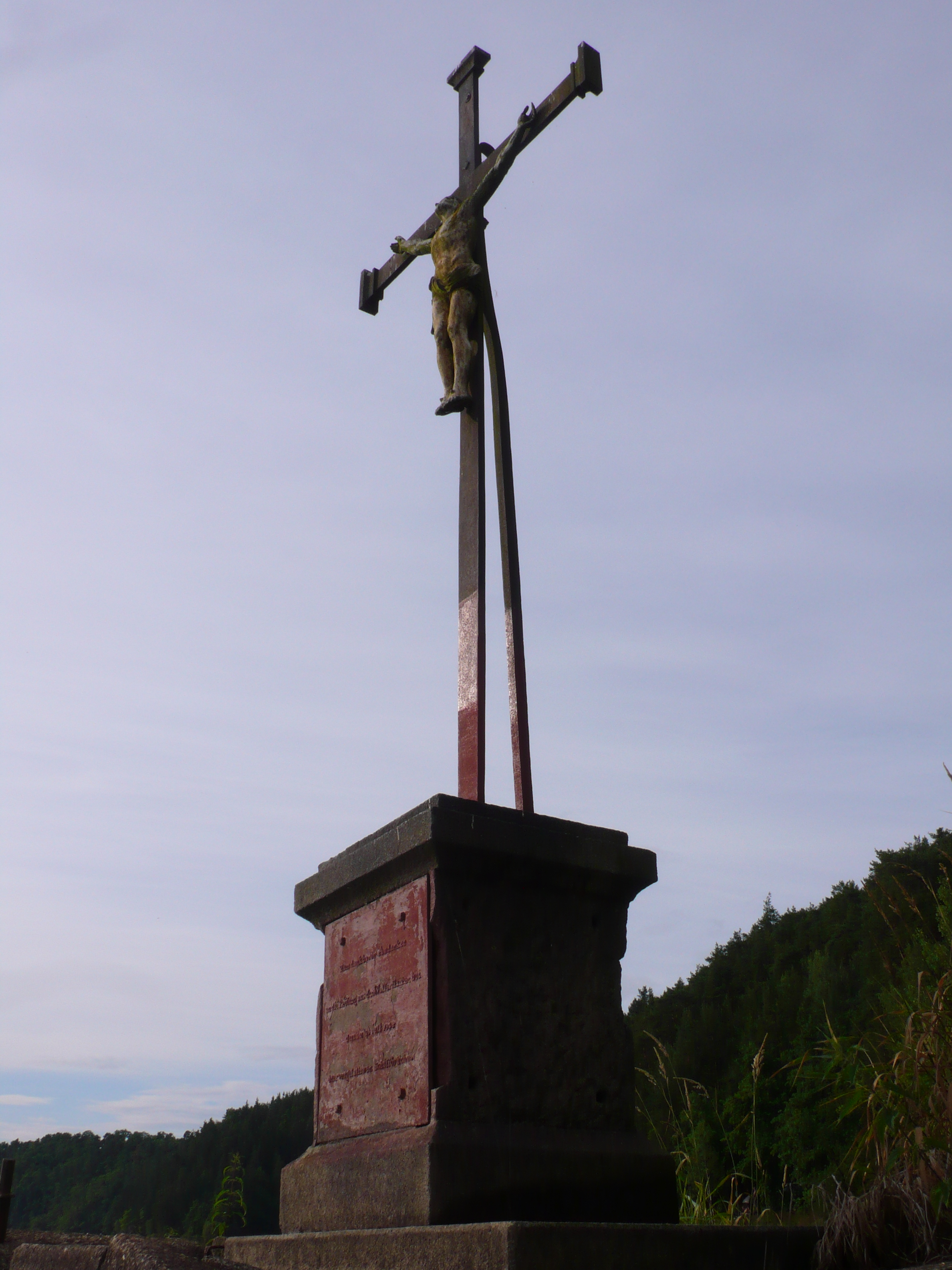 Lanna cross in Upper Lipov on Vltava